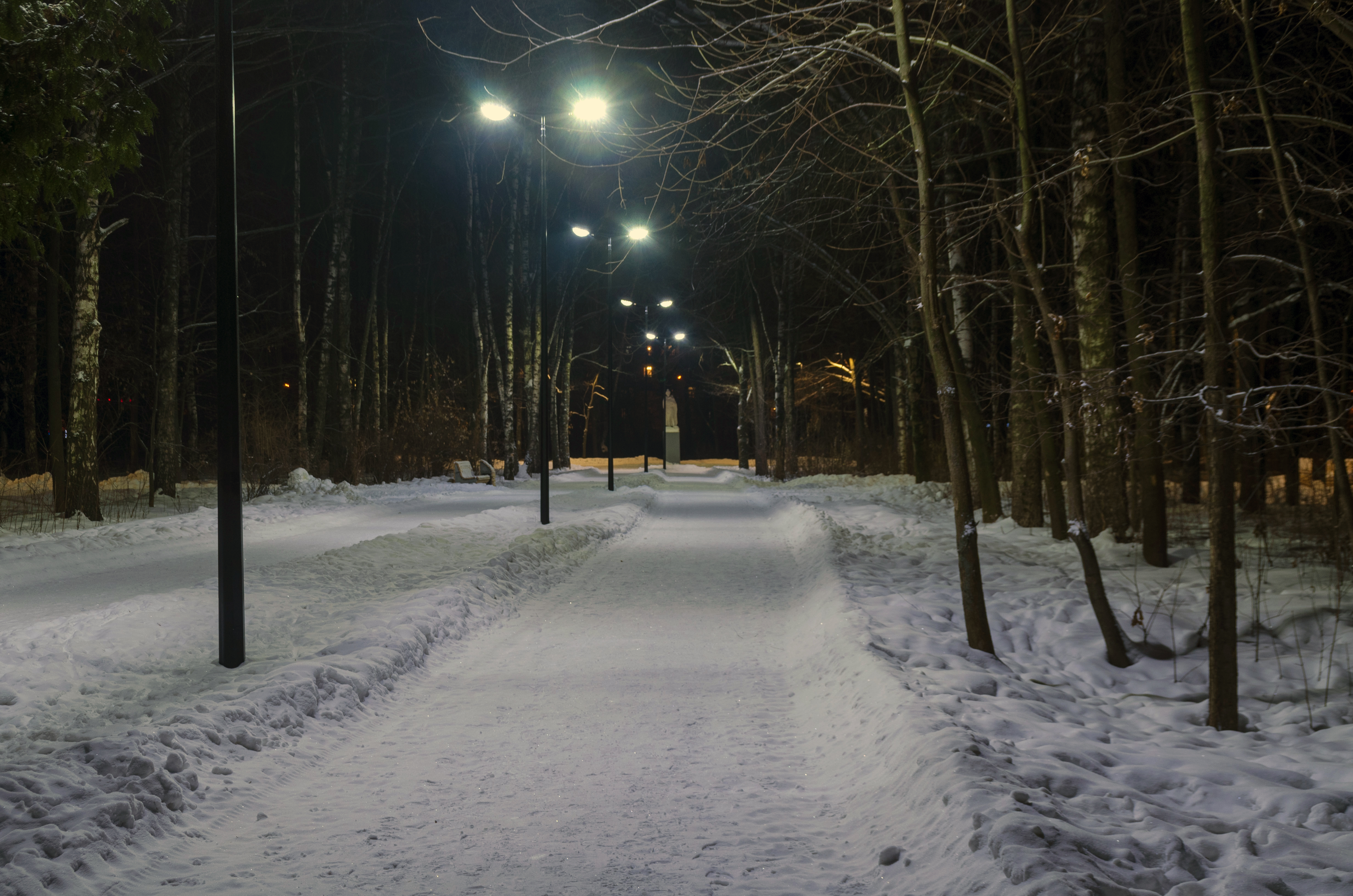 Dubki park in Nizhny Novgorod